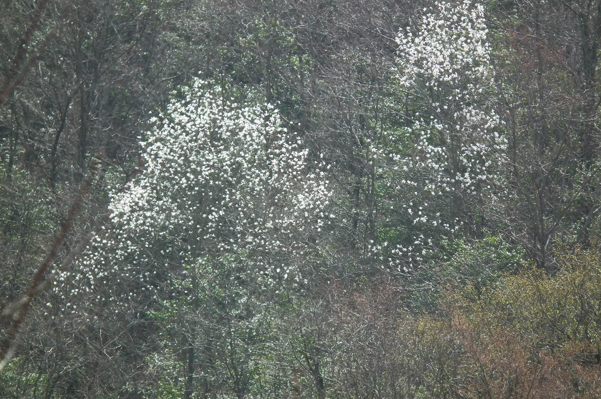 Magnolia salicifolia